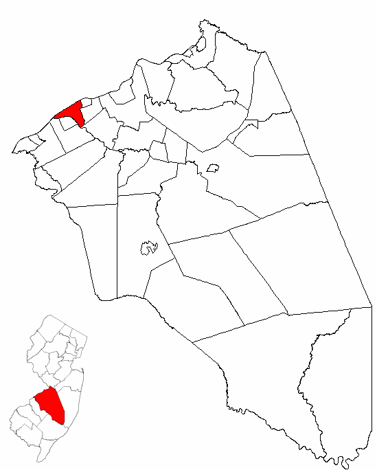 Map of Burlington County highlighting Delanco Township